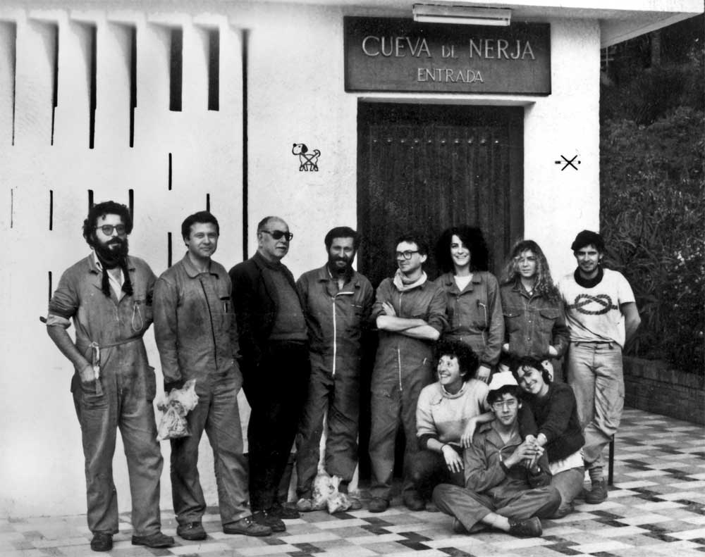 Part of the staff of the spanish prehistorian Francisco Jordá Cerdá in the archaeological excavation of the cave of Nerja, near Málaga (Spain): first his son, Jesús francisco Jordá Pardo; 2nd: Pere Ferrer i Marset, from the Centre d’Estudis Contestans, Cocentaina (Alicante); 3rd: Francisco Jordá Cerdá; 4th: Javier González-Tablas Sastre, from the University of Salamanca; 5th: Emili Aura Tortosa, from the University of Valencia; and some students of archaeology